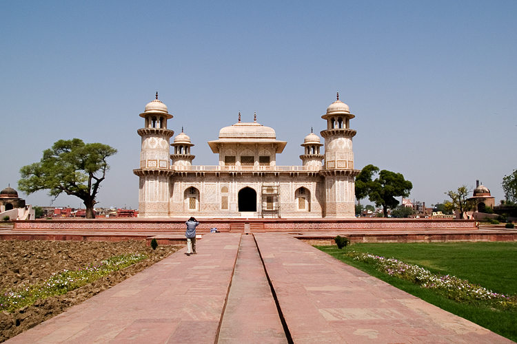 Tomb of Itimad-ud-Daulah, Agra/India also called the 'baby' Taj Mahal.